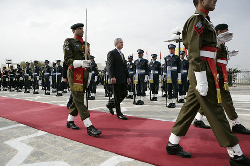 Arrival Ceremony. Meeting and Expanded Meeting with the President of Pakistan. Aiwan-e-Sadr.